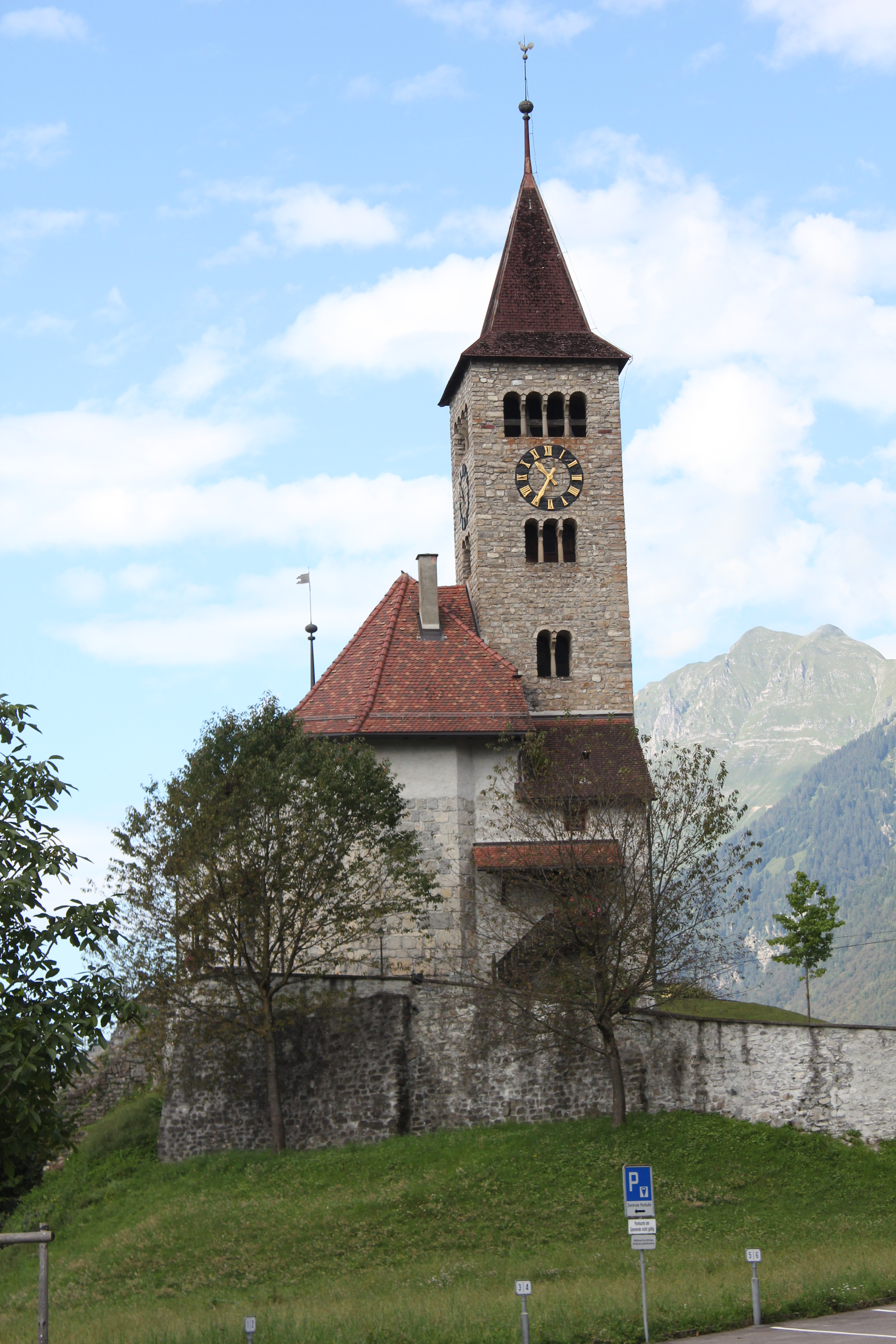 Evangelical church in Brienz (BE), outside view